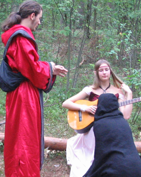 An elven bardess, a magician and a girl at a live action role-playing game BBRI4 in Visaginas, Lithuania (July 27-30, 2006).